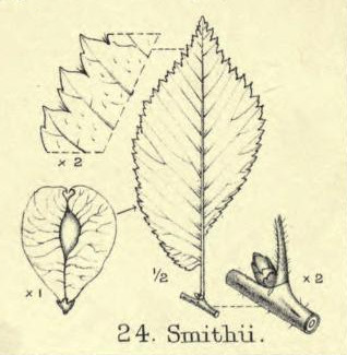 Leaf of U. x hollandica 'Smithii' from Elwes & Henry